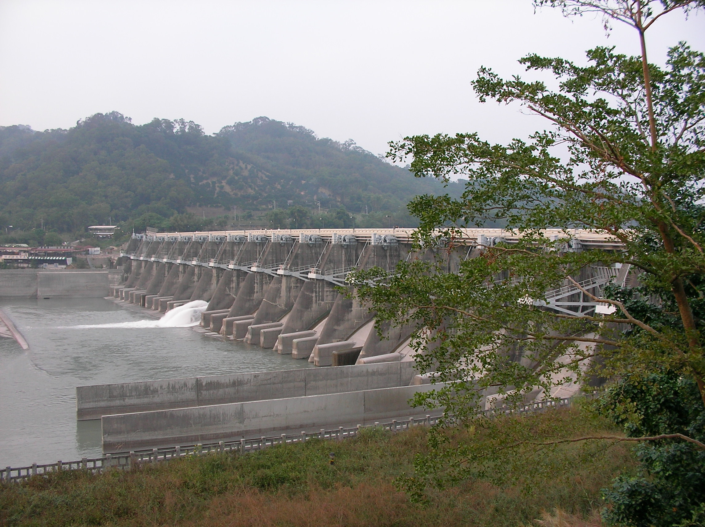 Shihgang Dam, Taichung, Taiwan